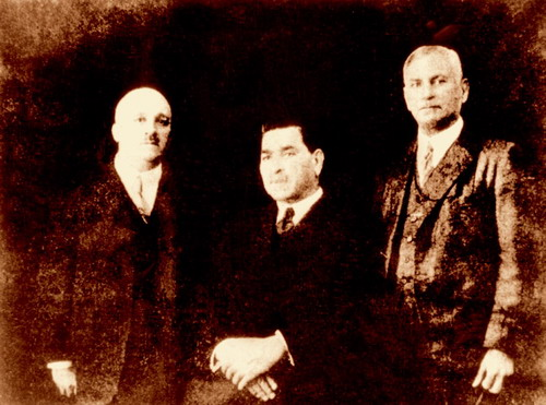 From left, N.E.B. Ezra, M. Meyer, and I.A. Lewis